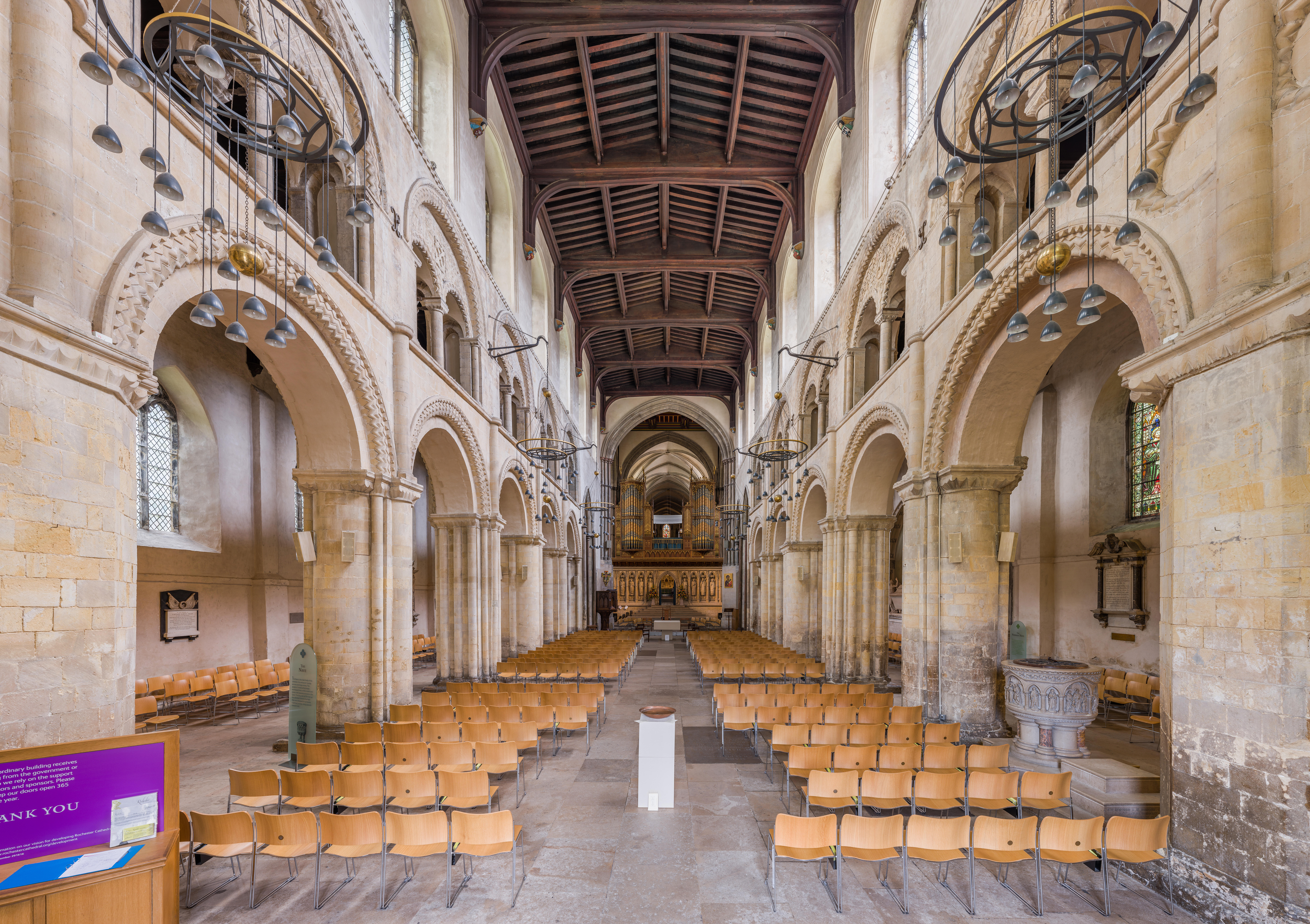 The nave of Rochester Cathedral, facing east towards the organ and rood screen in Kent, England.